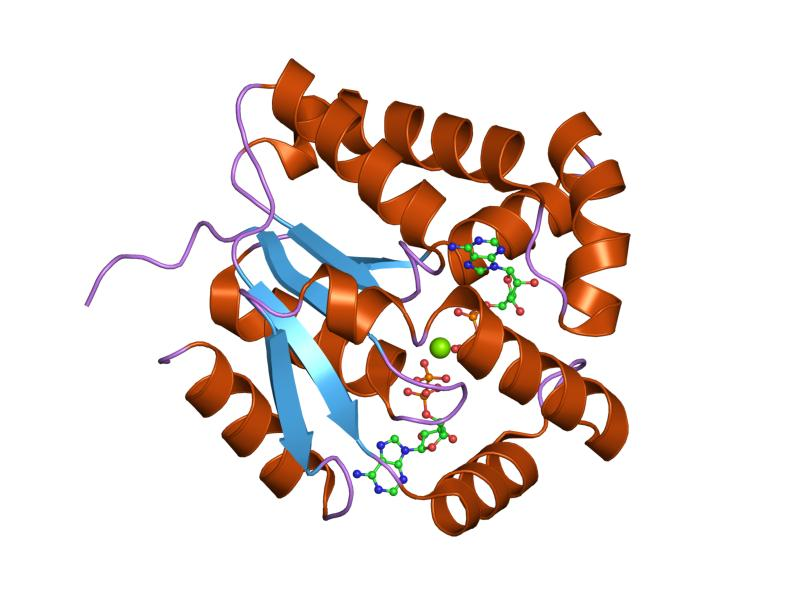 Cartoon representation of the molecular structure of protein registered with 2cdn code.